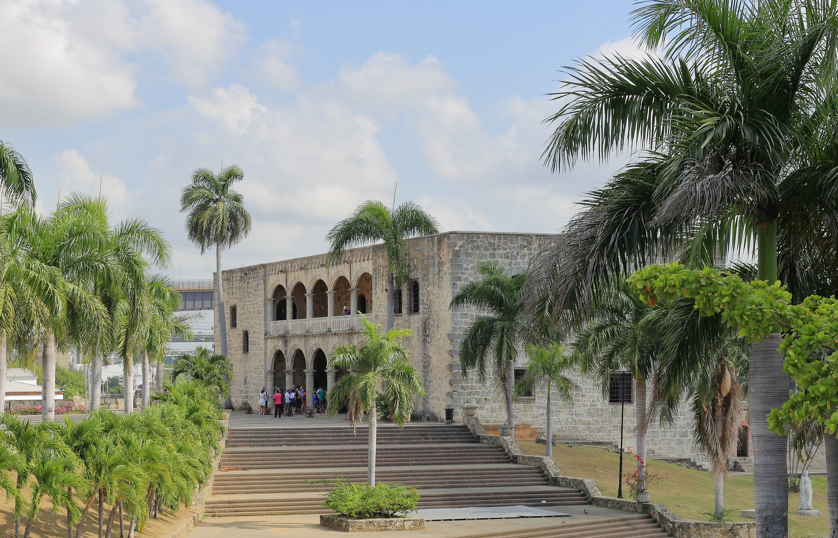 Santo Domingo - Alcázar de Colón, March 2016, part of UNESCO World Heritage Site Ref. Number 526